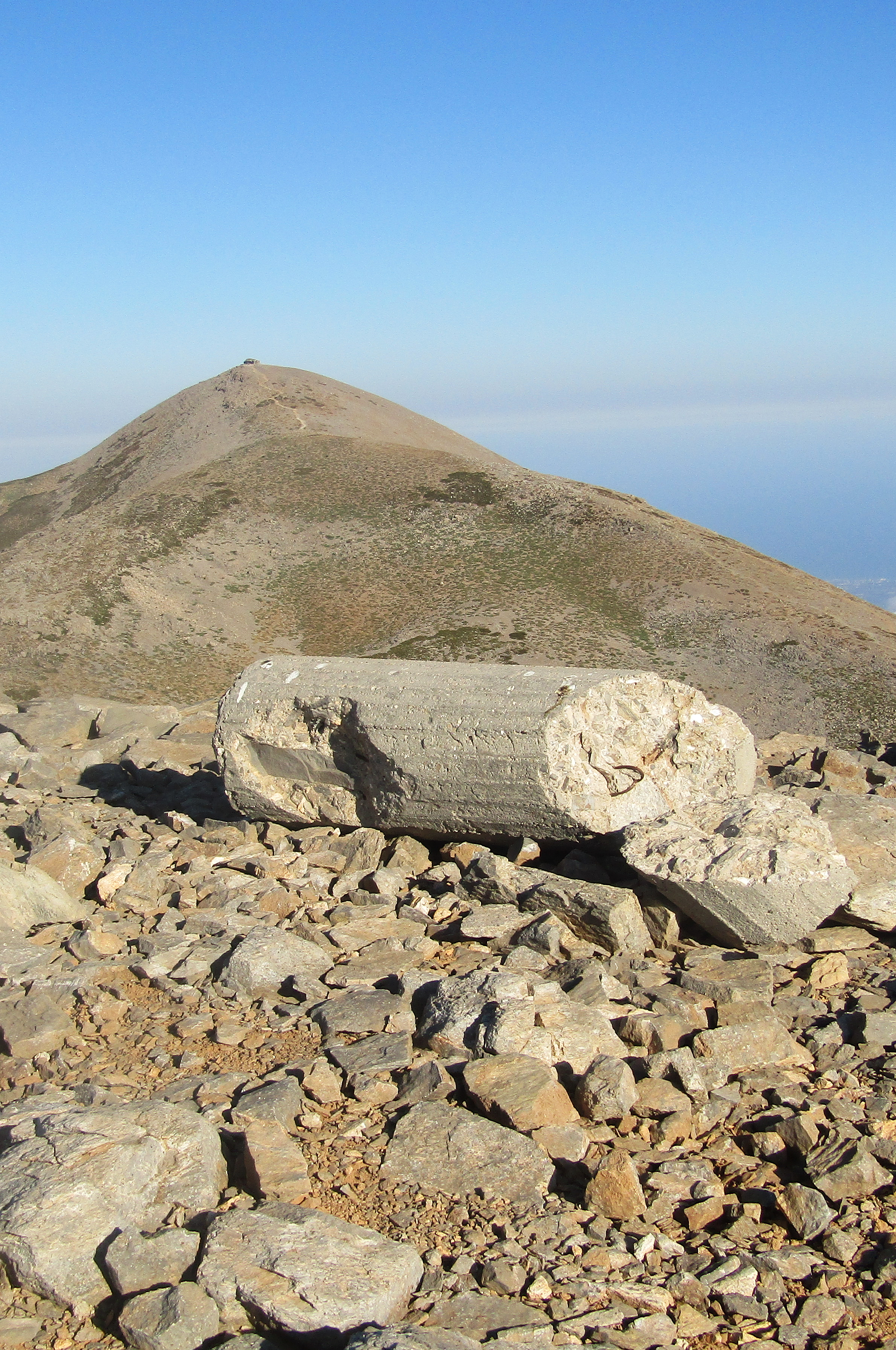 Agathias (Psiloritis): its ruined summit trig point, on the background Mount Ida